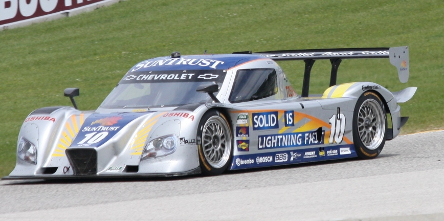 The Daytona Prototype of Max Angelelli and Ricky Taylor racing in Grand-Am sports car at Road America.